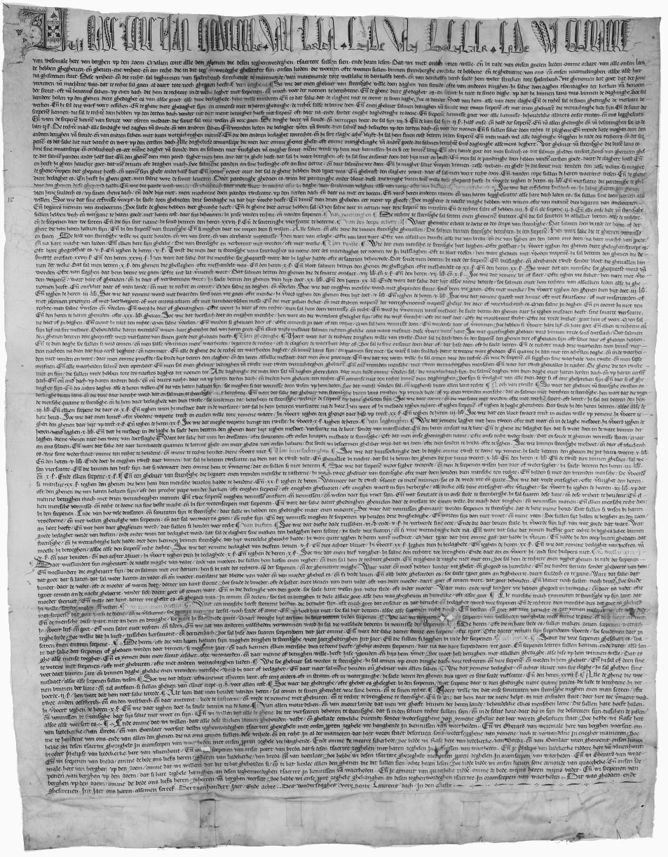 Town charter of Steenbergen (1308)